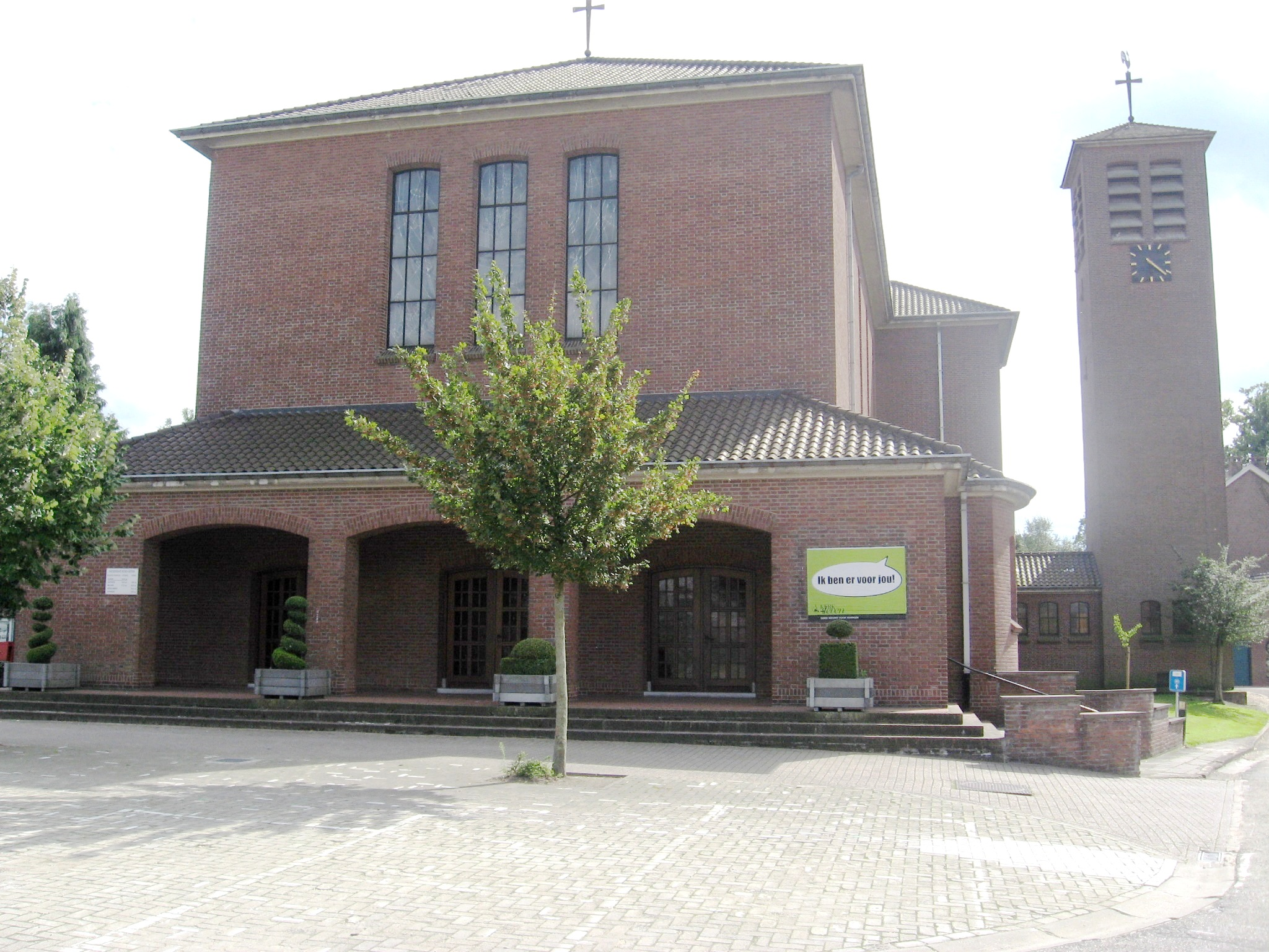 Church of the Saints Herlindis and Relindis in Ellikom, Meeuwen-Gruitrode, Limburg, Belgium